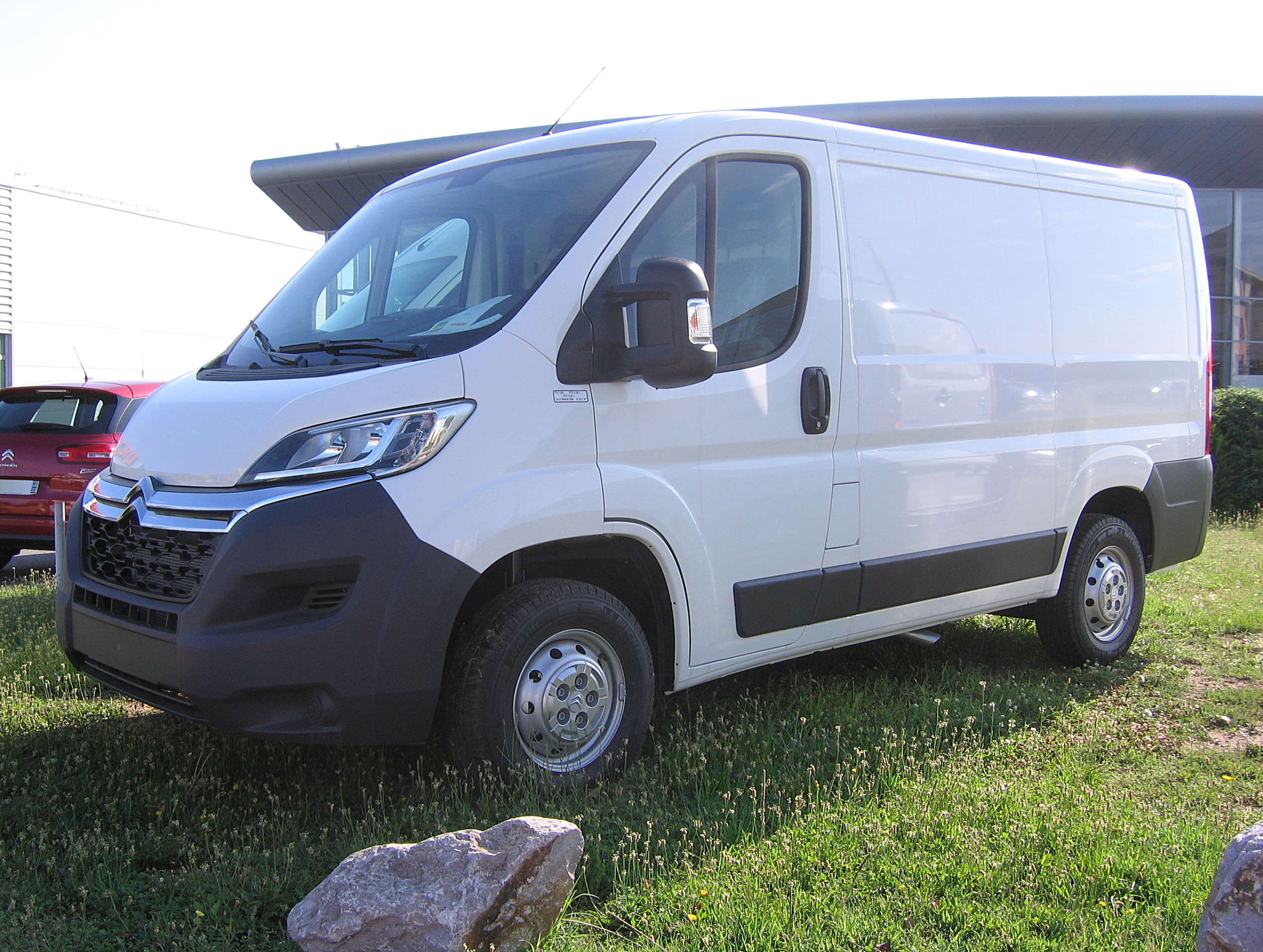 A 2014 Citroën Jumper.